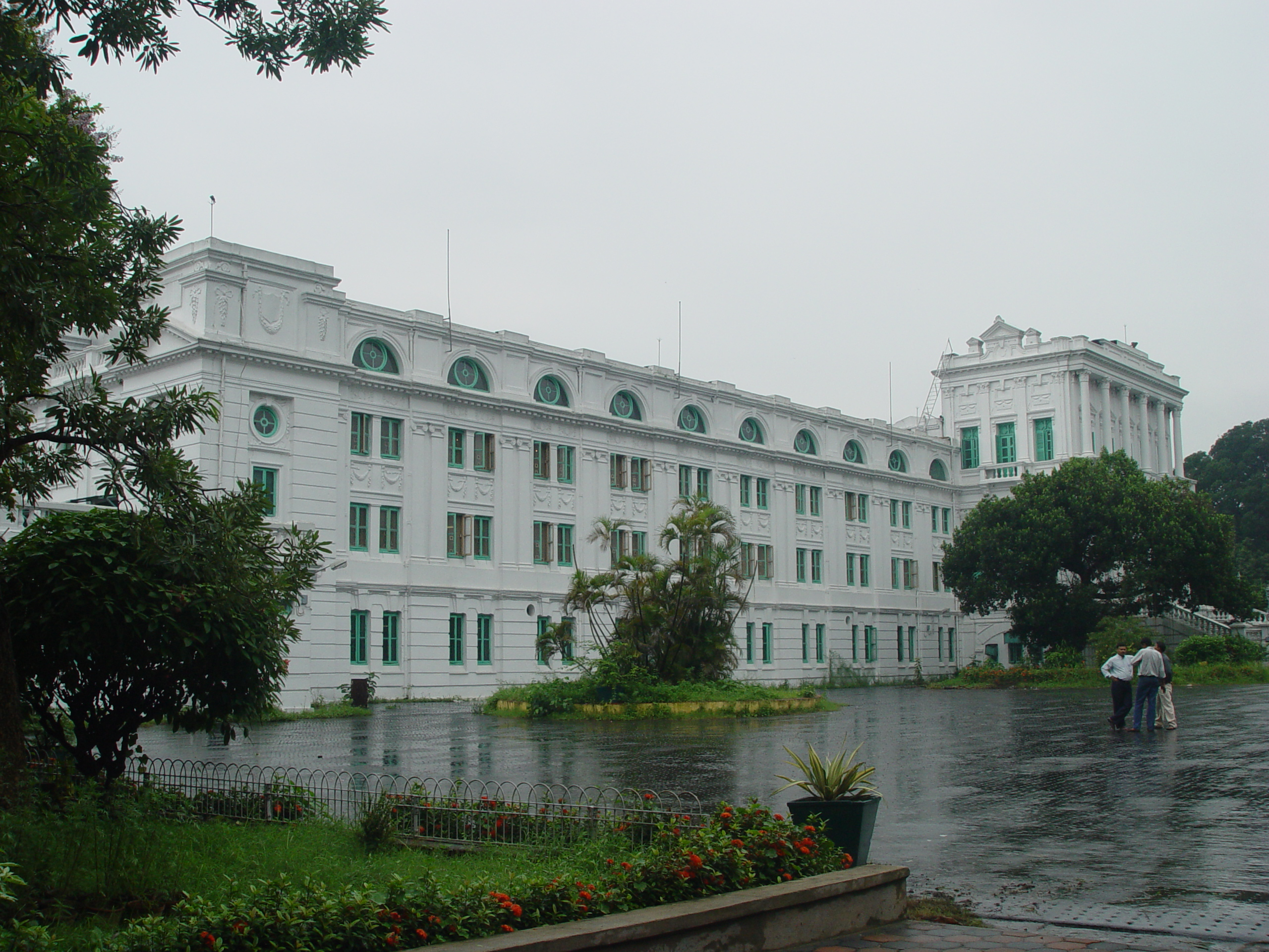 The National Library of India, Kolkata is the largest library in India and India's library of public record. It is under the Department of Culture, Ministry of Tourism & Culture, Government of India.